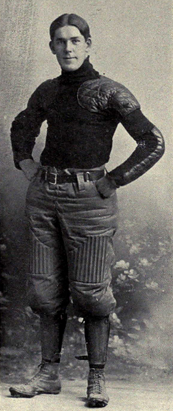 Photograph of Herb Graver